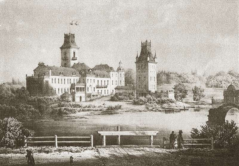 Palace of Marian Czapski in Kėdainiai, Lithuania